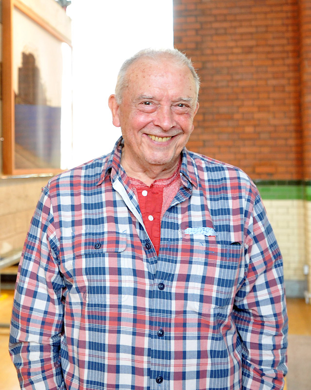 Portrait of British photographer David Bailey at the opening of his East End exhibition, as viewed from the waist up.